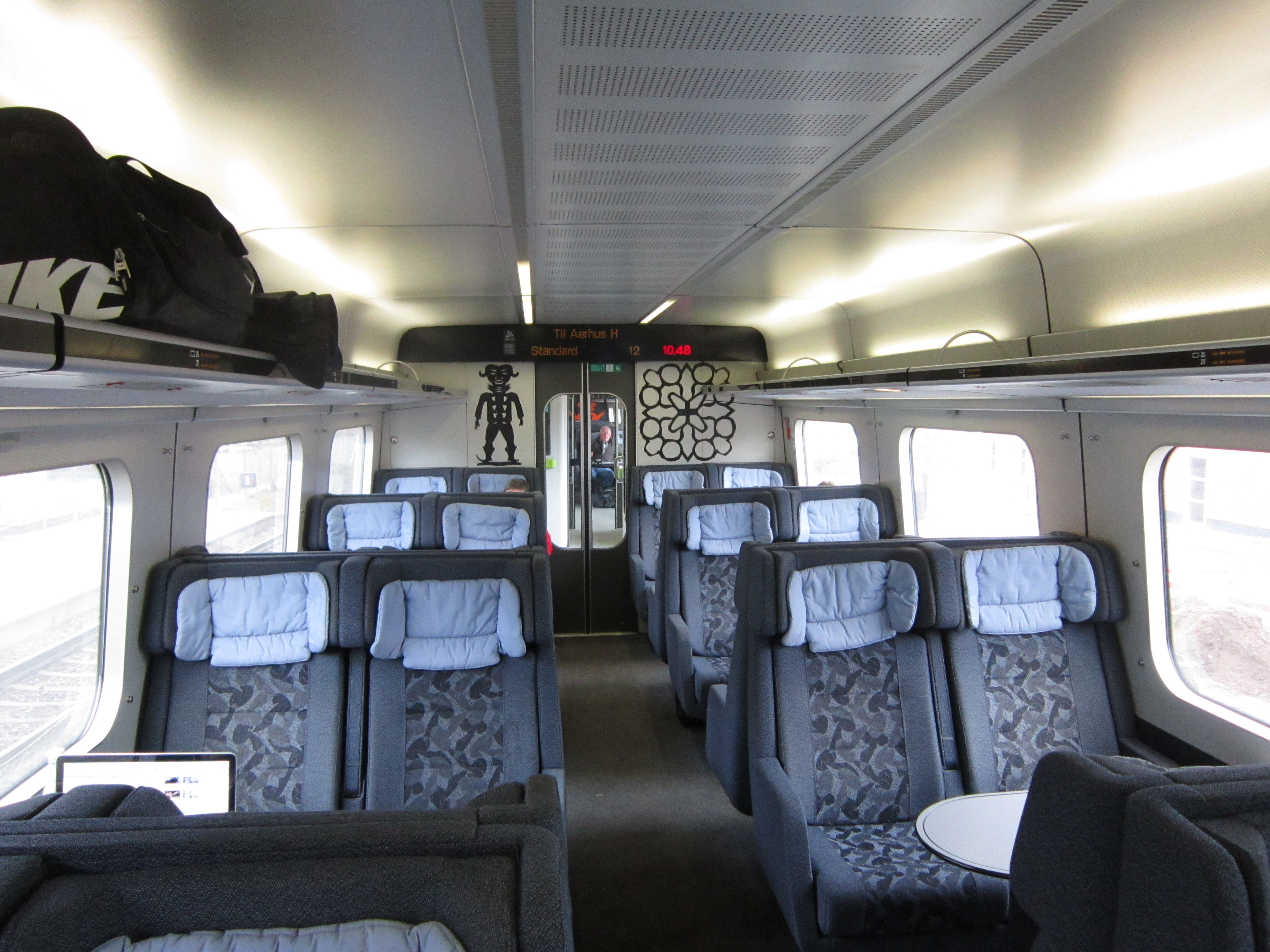 DSB IC3 interior